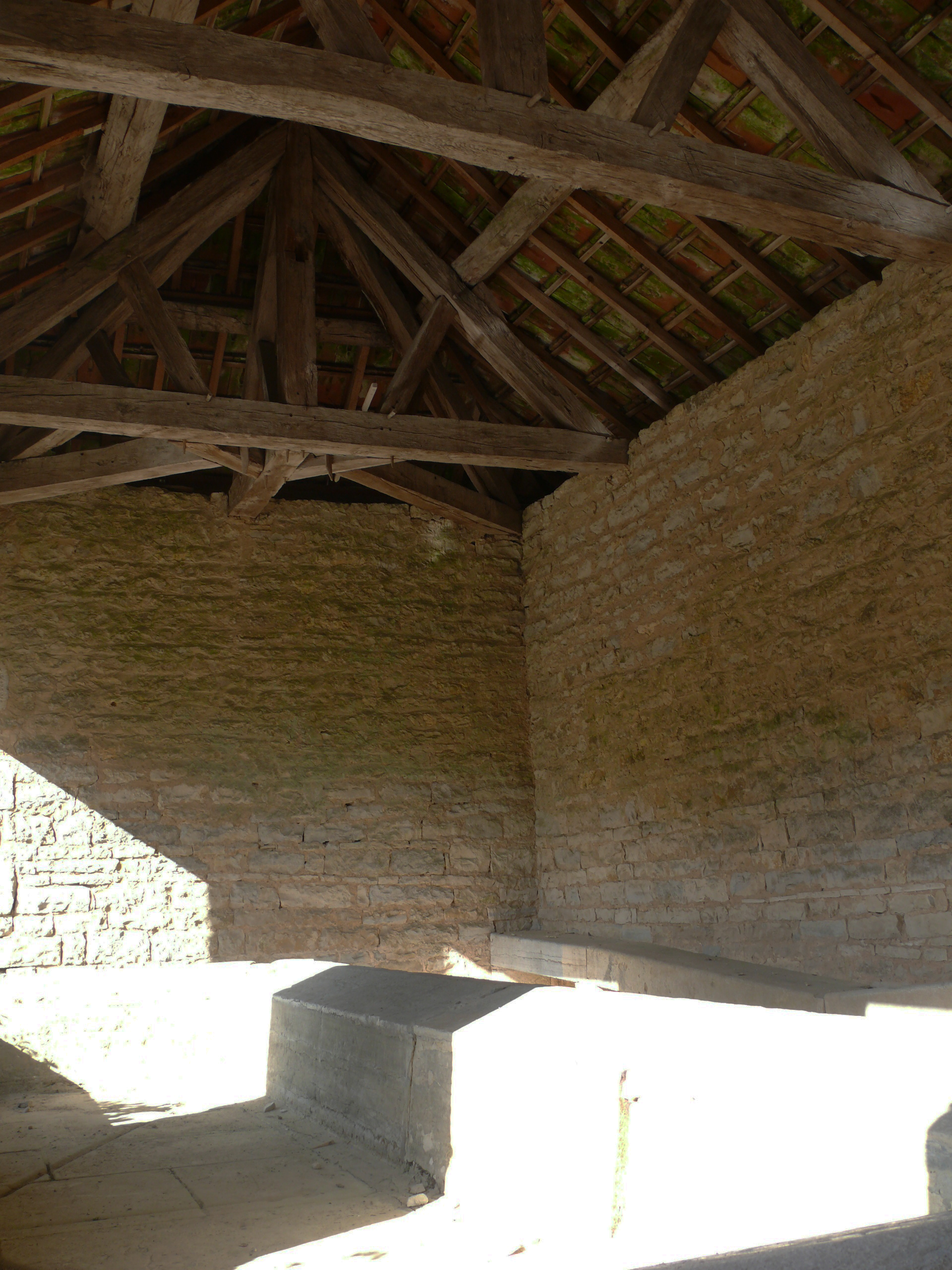 Interior of the lavoir of Pennesières (Haute-Saône, France)